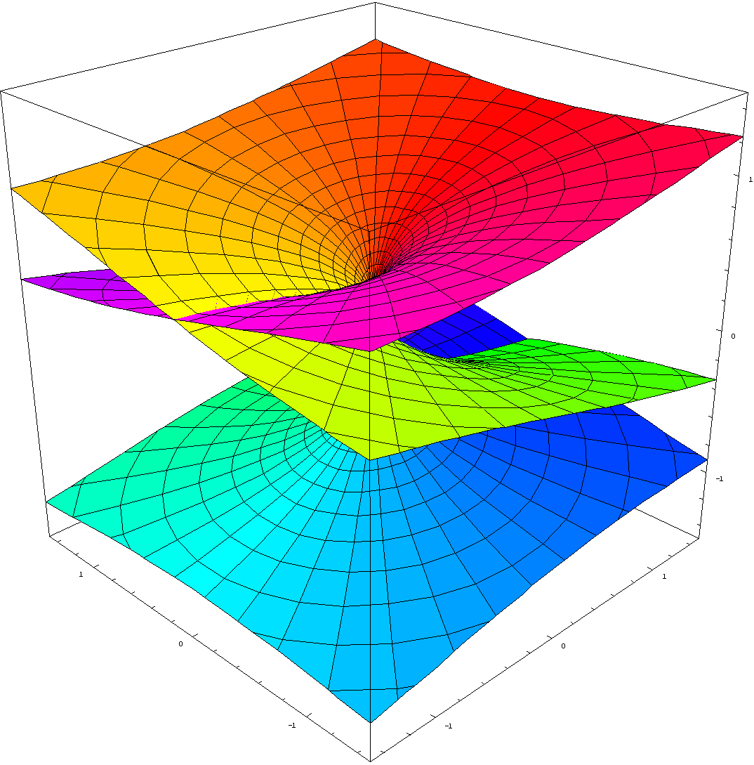 riemann surface of the cube root, projection from 4dim C x C to 3dim C x Re(C), color is argument